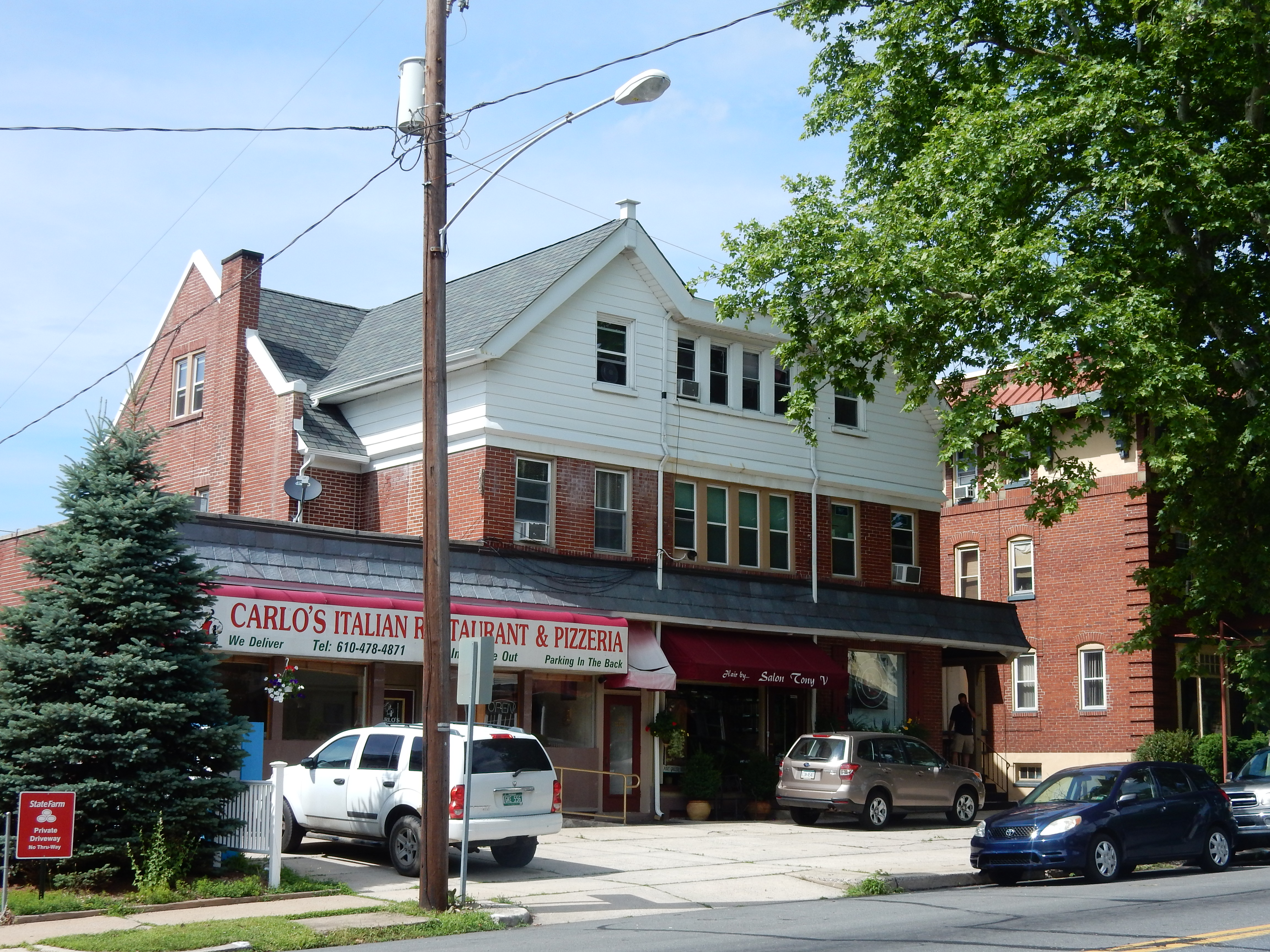 Carlo's Italian Restaurant & Pizzeria, 1147 Penn Ave, Wyomissing, Berks County, Pennsylvania.